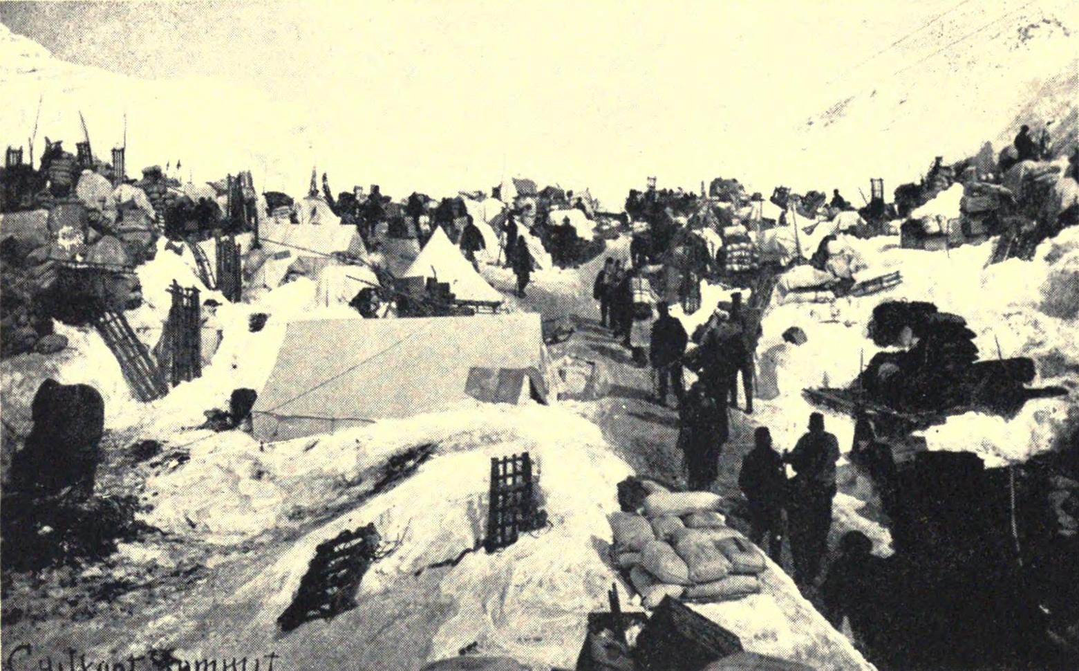 Men walk a path trodden in deep snow, flanked by tents pitched in the snow and a jumble of piles of food, gear, and sleds.